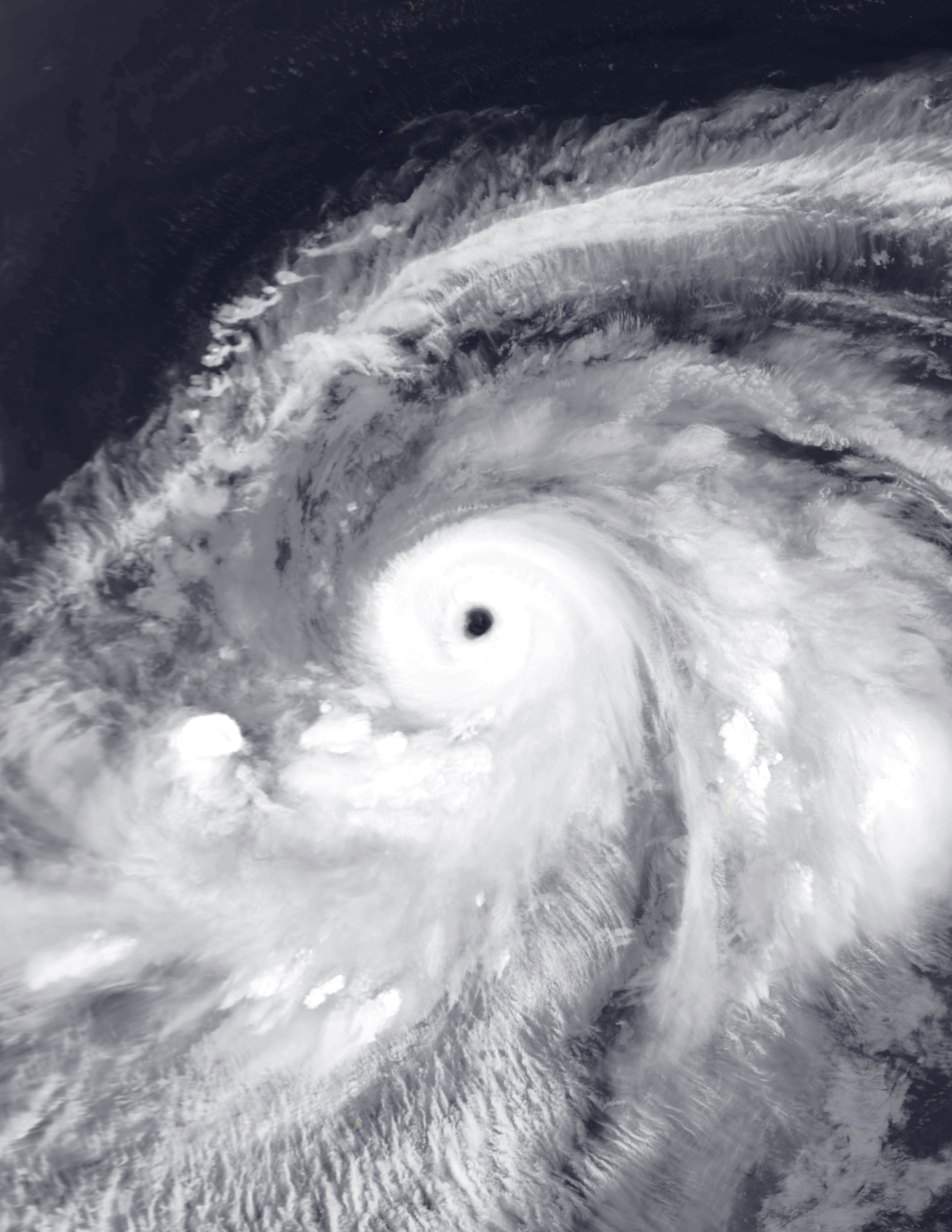 Typhoon Chaba at peak intensity on August 23, 2004.